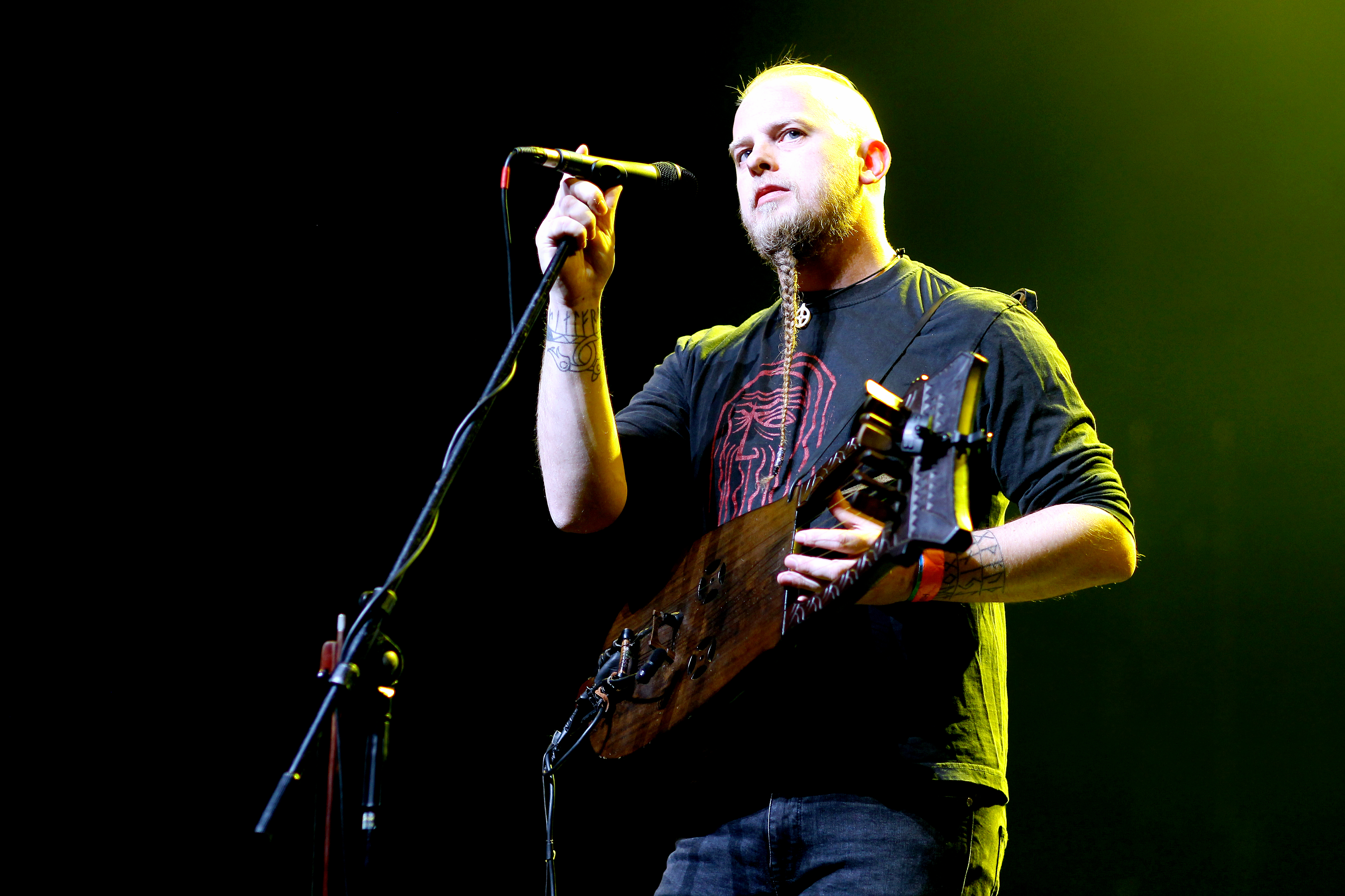 The Norwegian musician Einar Selvik at the Wave-Gotik-Treffen 2018 in Leipzig/Germany (Venue Schauspielhaus).